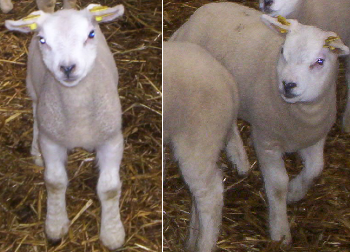 The difference between a female (left) and a male lamb.